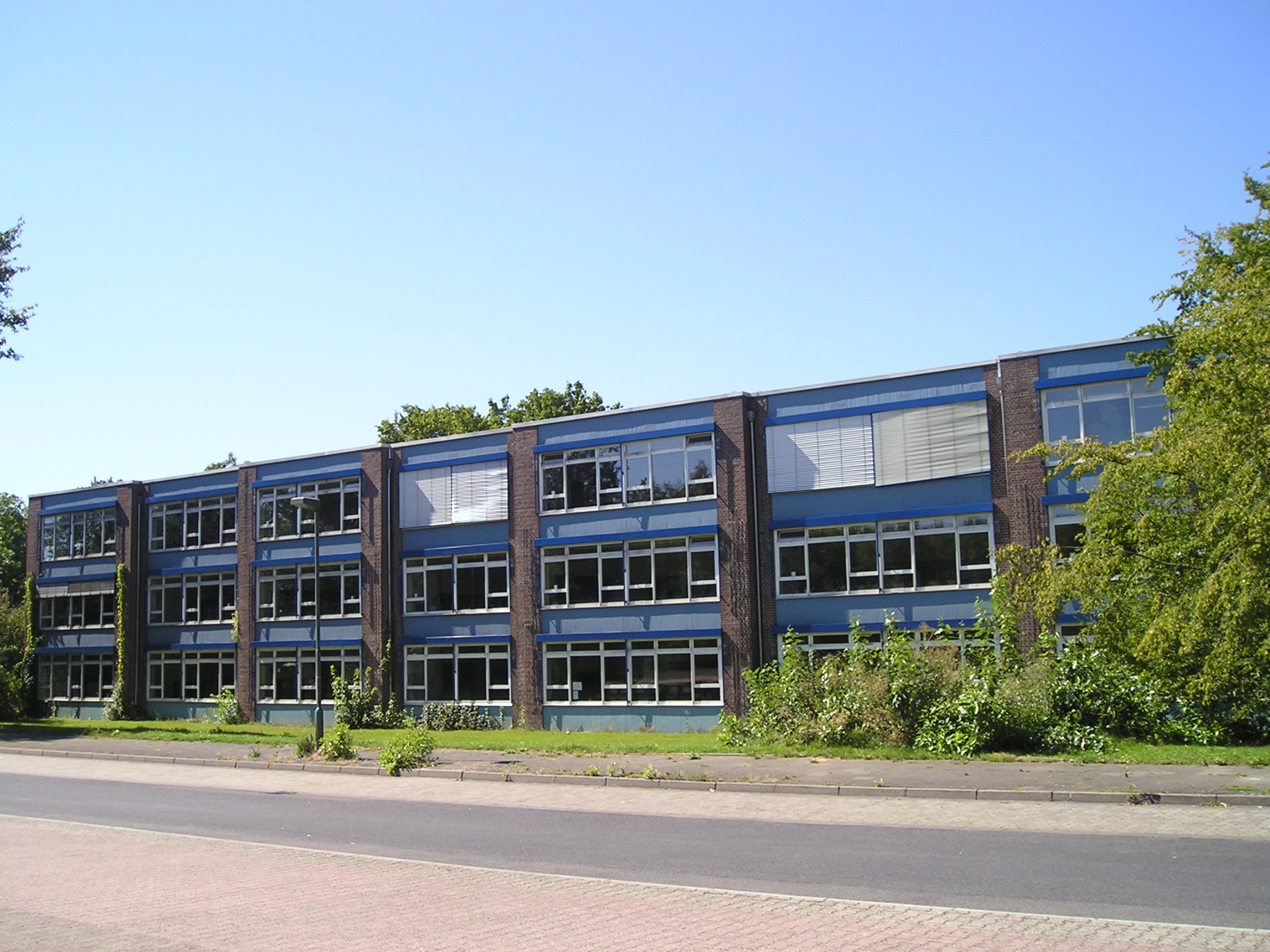 school building from the south